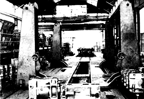 Repair workshop, Kananga, Zaire. Although workshops are in fair condition, wagons workshops need additional equipments. Shortage of spare parts seriously impair capabilities.